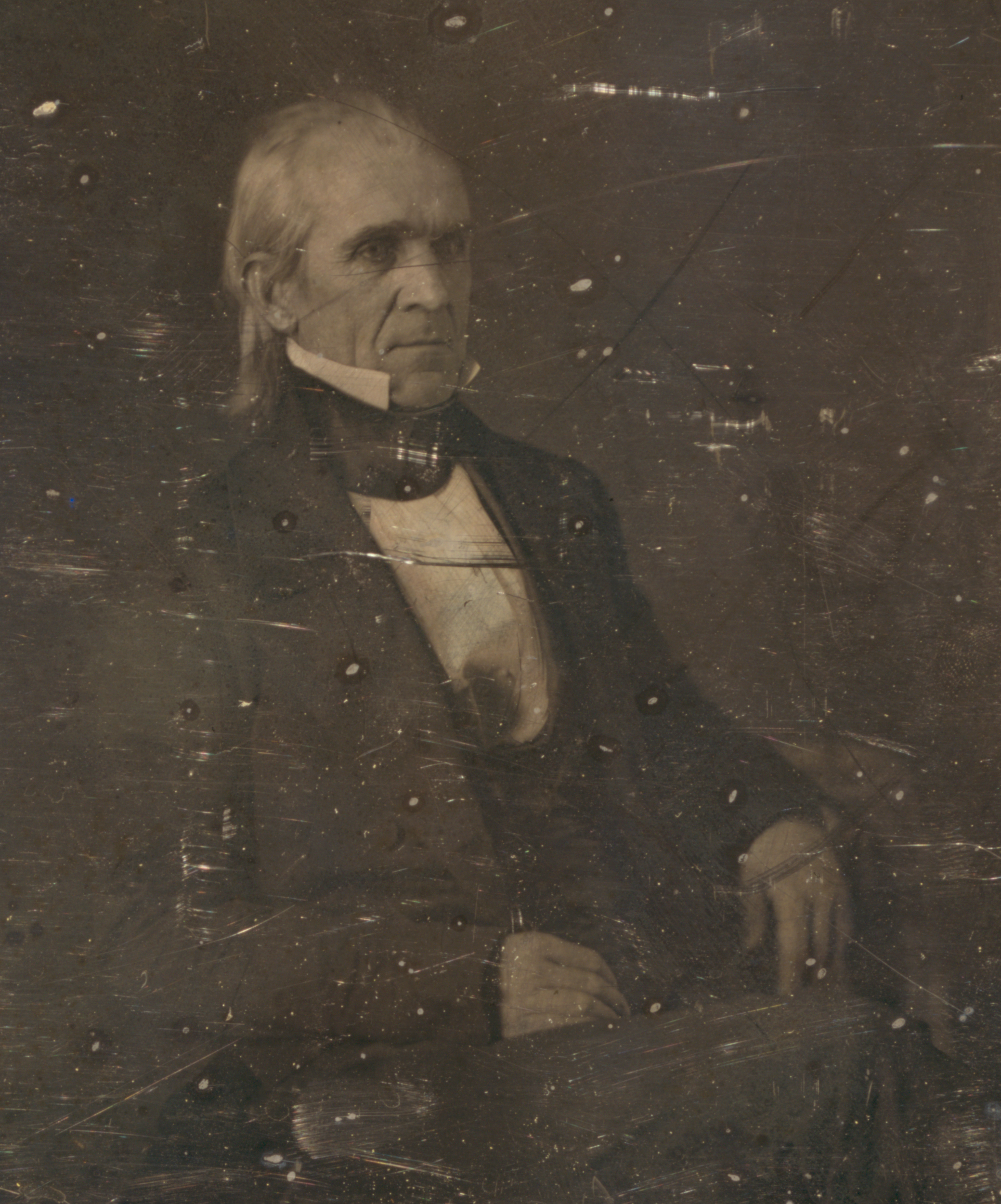 United States president James Knox Polk, three-quarter length portrait, three-quarters to the right, seated. Daguerrotype